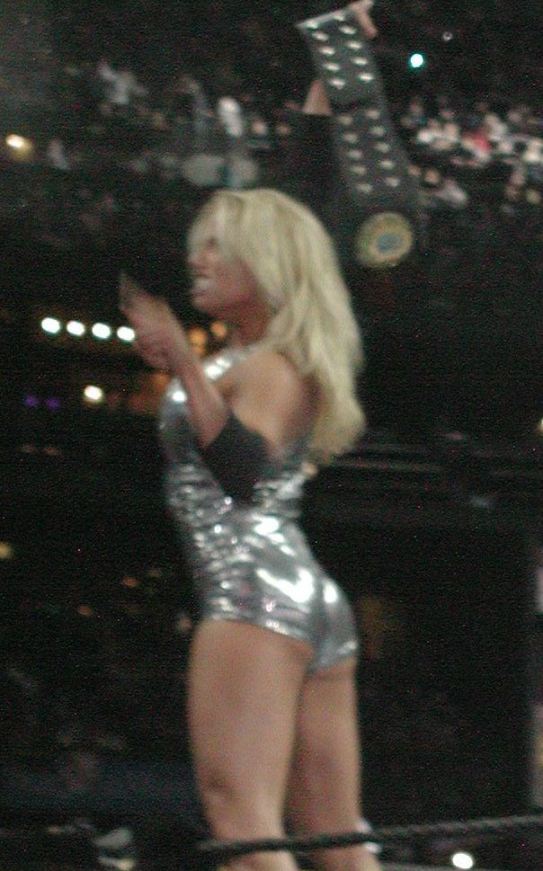 Trish Stratus winning the WWE Women's Championship at WrestleMania XIX. March 30en:2003 Seattle, WA Safeco Field.